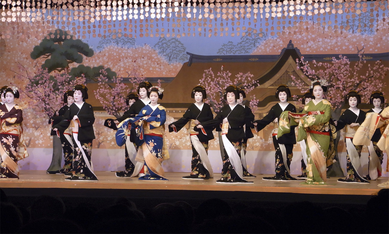 Kitano Odori, a kabuki dance that is performed annually by the geishas of Kamishichiken